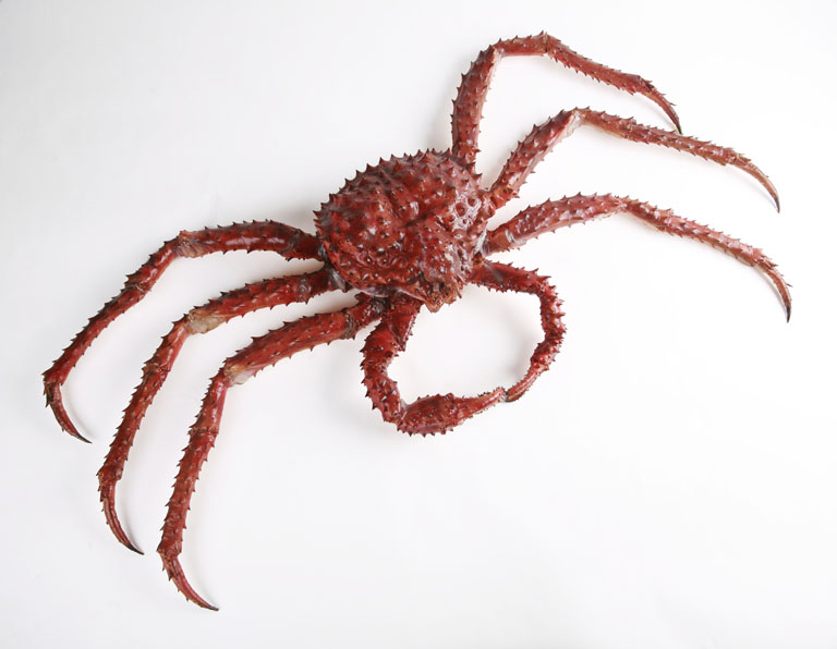 An Alaskan red king crab in the permanent collection of The Children’s Museum of Indianapolis.